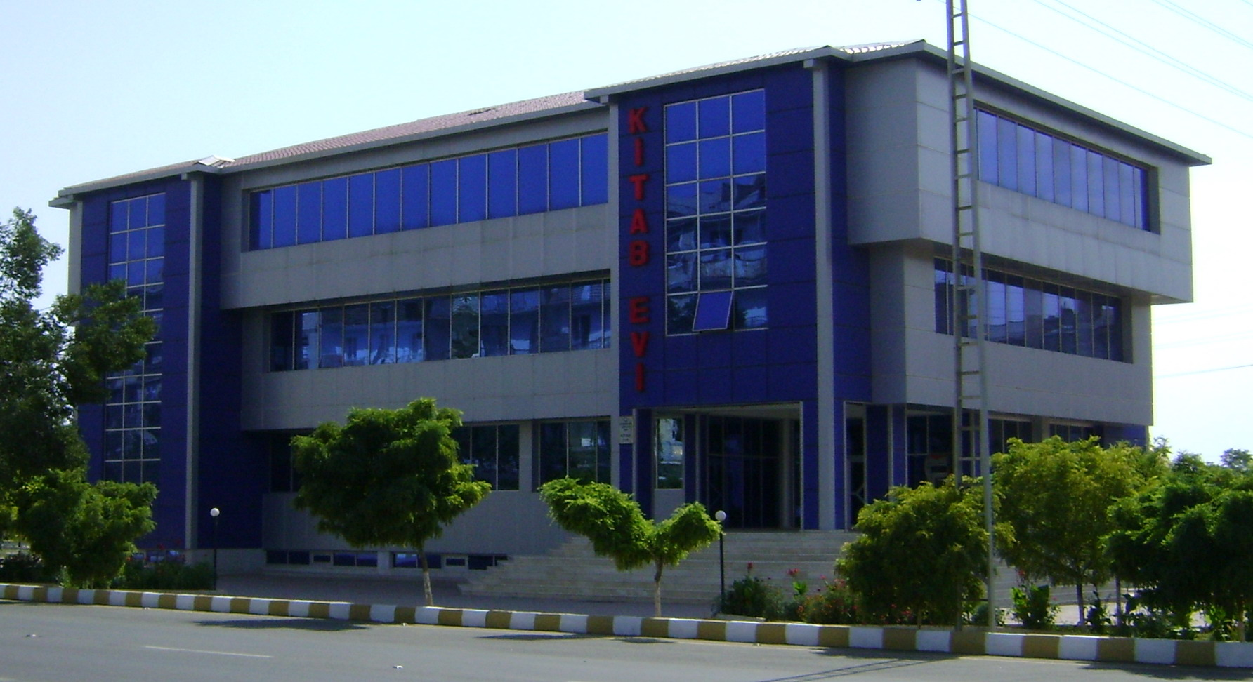 Nakhchivan City library